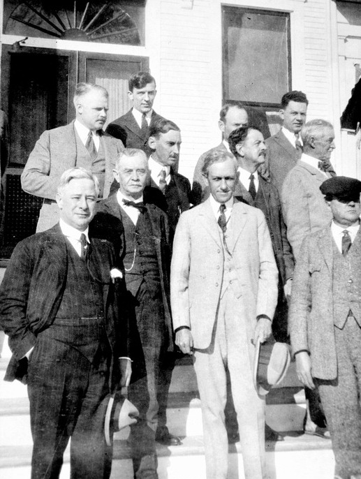 Florida governor Cary Hardee (center front, in white) and staff